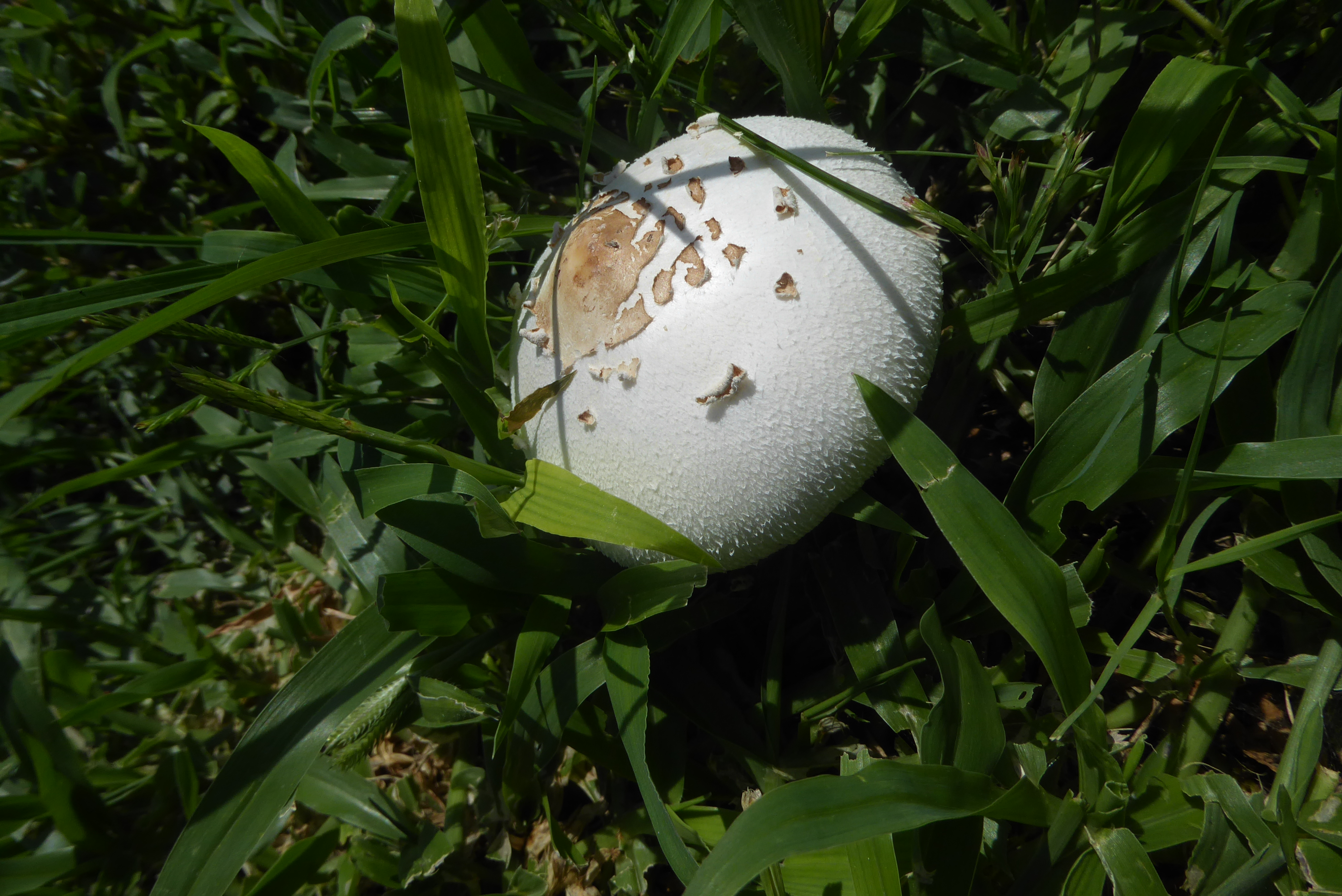 Edith Wolfson Park